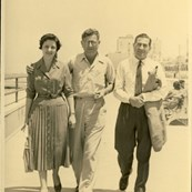 Shmaria Zameret and others